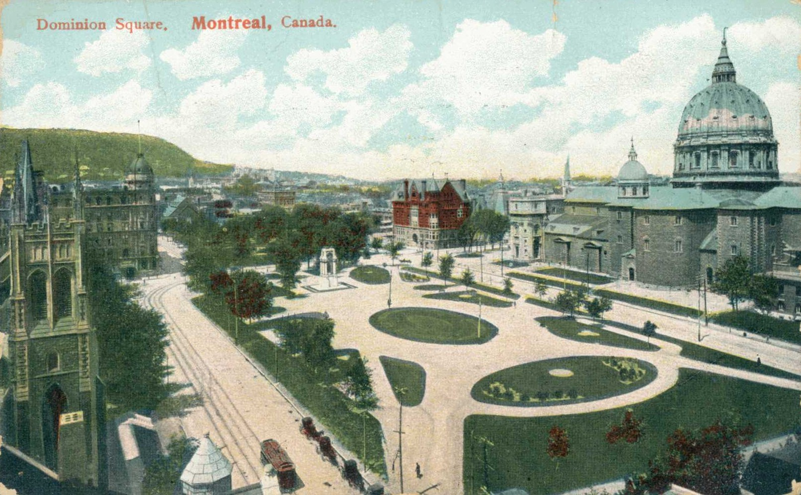 Postcard of Dominion Square in Montreal, Quebec, Canada. Postmarked January 27, 1911.